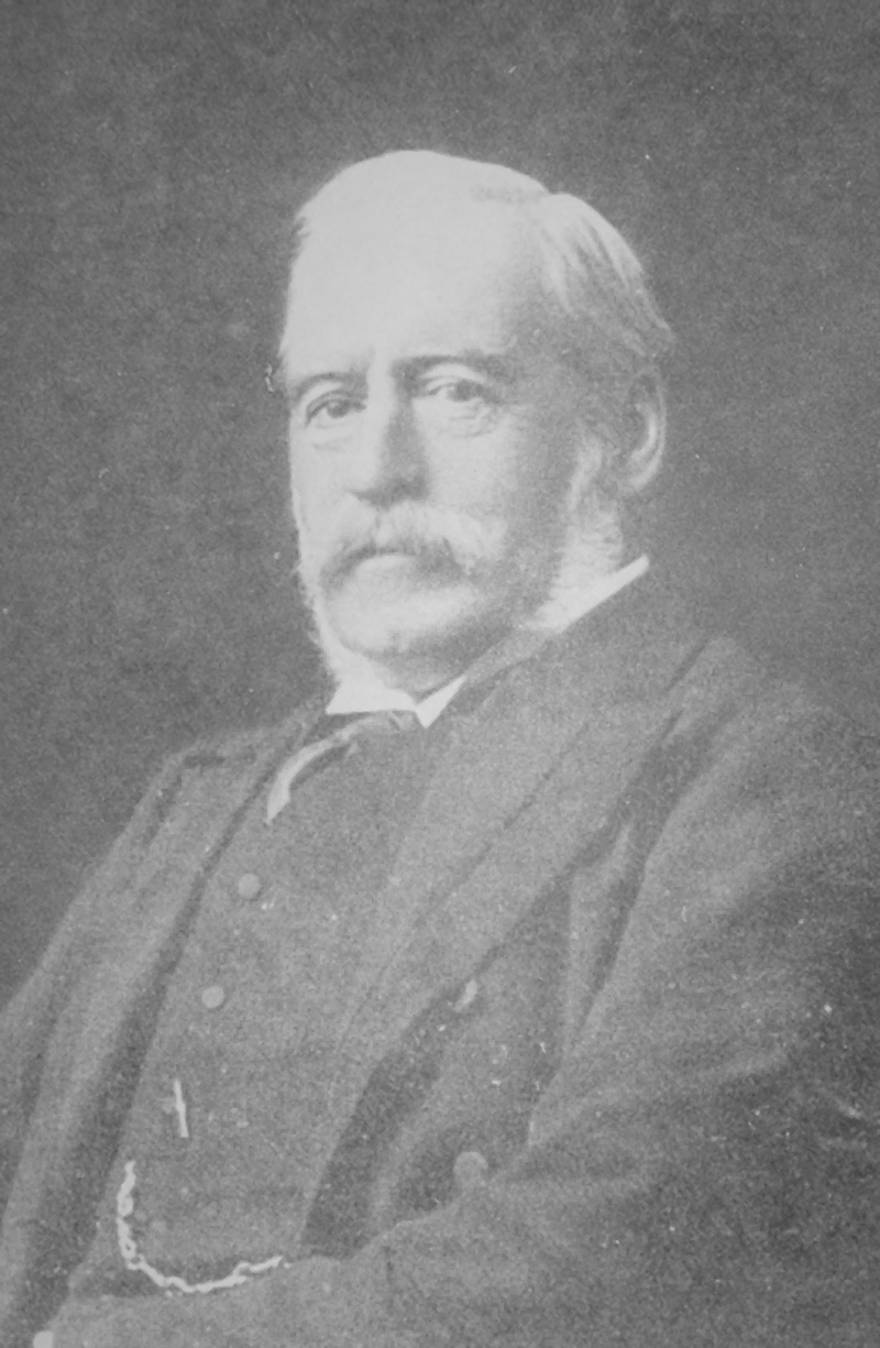 Thomas de Grey, 6th Baron Walsingham (29 July 1843 – 3 December 1919) Reprinted in Rao BR Subba (1998) History of entomology in India. Institution of Agricultural Technologists, Bangalore.